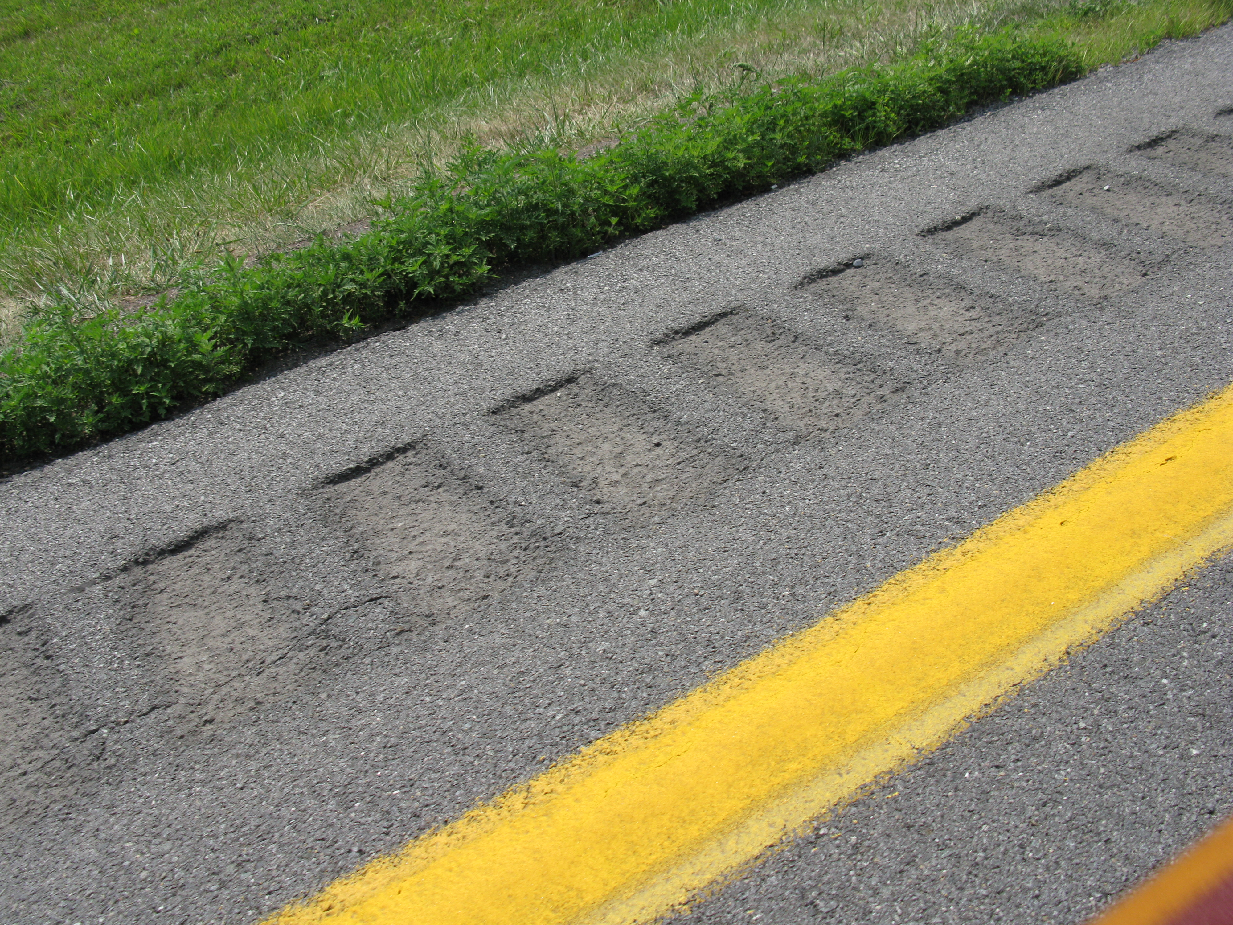 Rumble strip in Warfordsburg, Pennsylvania, United States